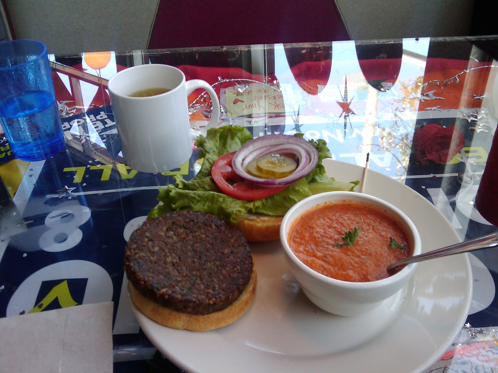 Vege burger at Saturn Cafe, Santa Cruz. Each table was themed. Mine was say no to Prop 8 (a proposal to ban gay marriage) - that very day it was announced that the campaign failed.